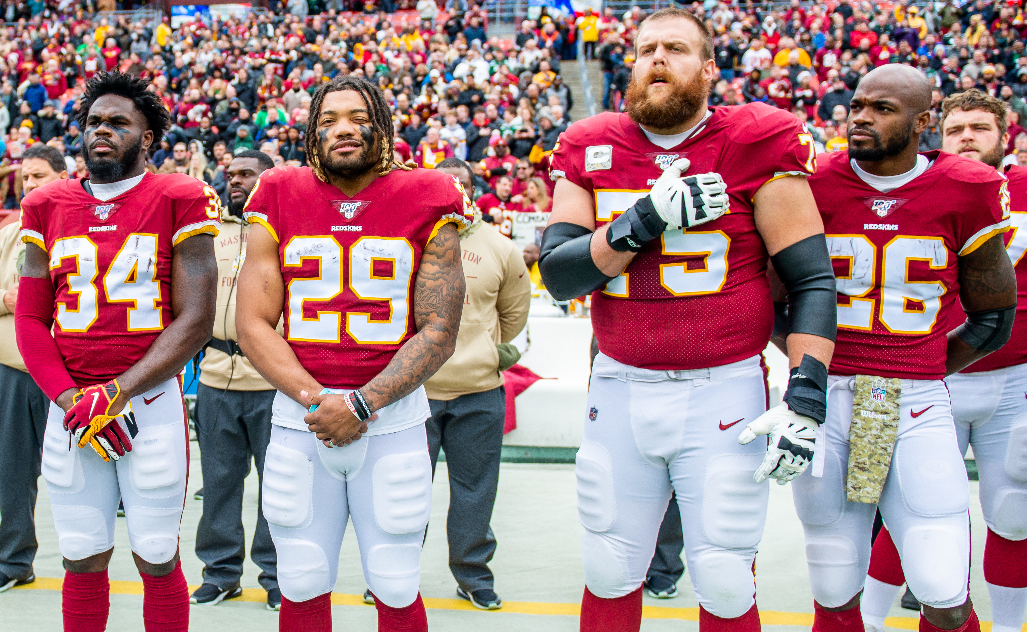 In 2019